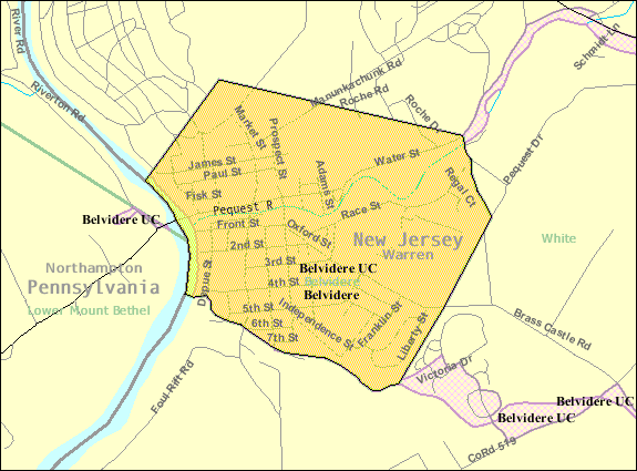 Census Bureau map of Belvidere, New Jersey